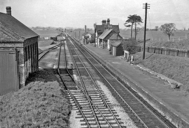 Bettisfield Station. View westward, towards Oswestry; ex-Cambrian Rlys. main line Whitchurch - Oswestry - welshpool - Aberystwyth. This station was closed 18/1/65, when passenger services were withdrawn Whitchurch - Oswestry - Buttington, Whitchurch - Ellesmere remaining open for goods until 29/3/65.n